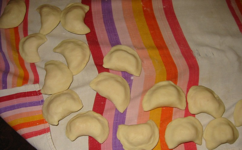 Ready to be boiled.